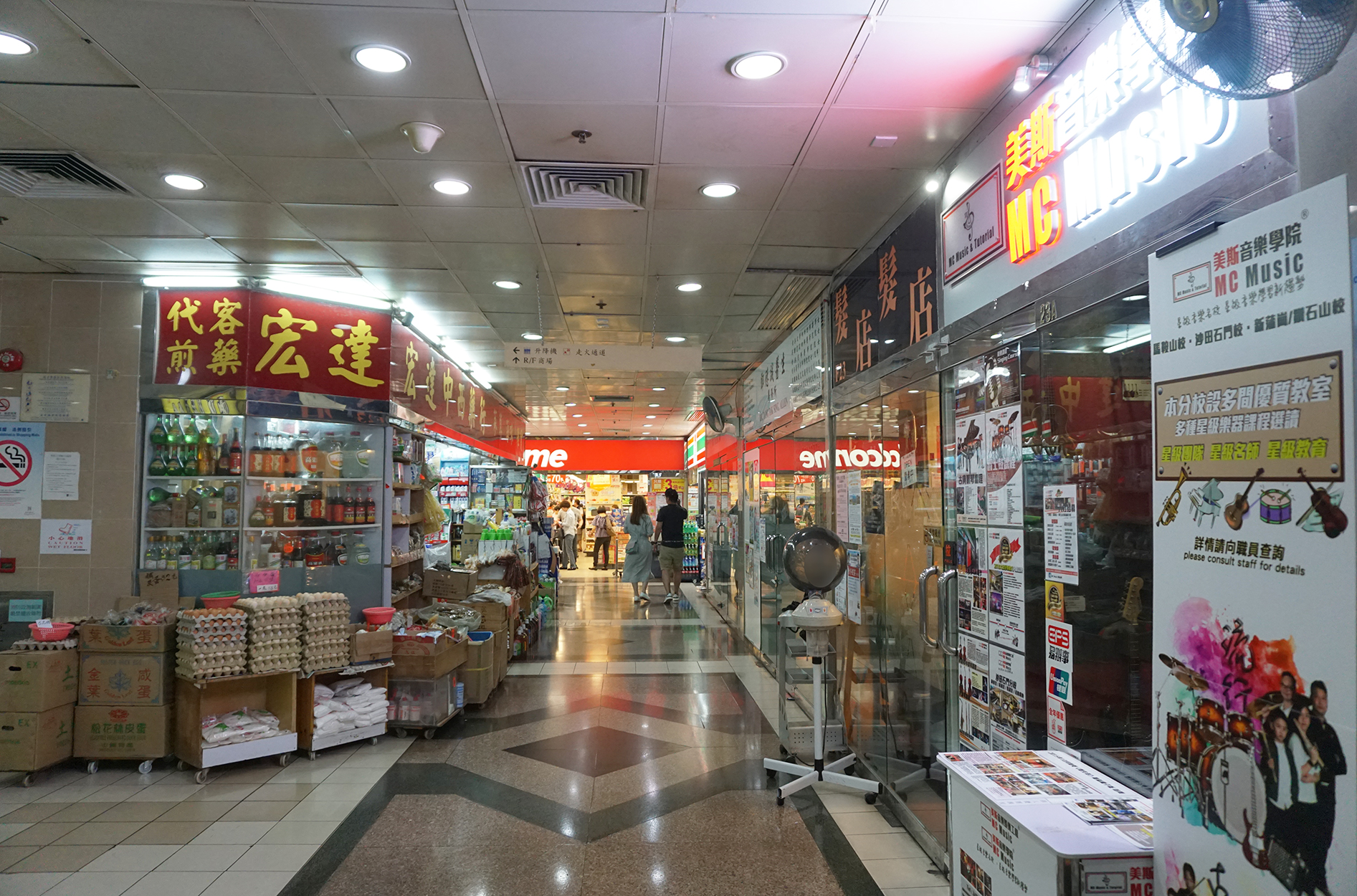 Saddle Ridge Garden in Ma On Shan, Hong Kong.